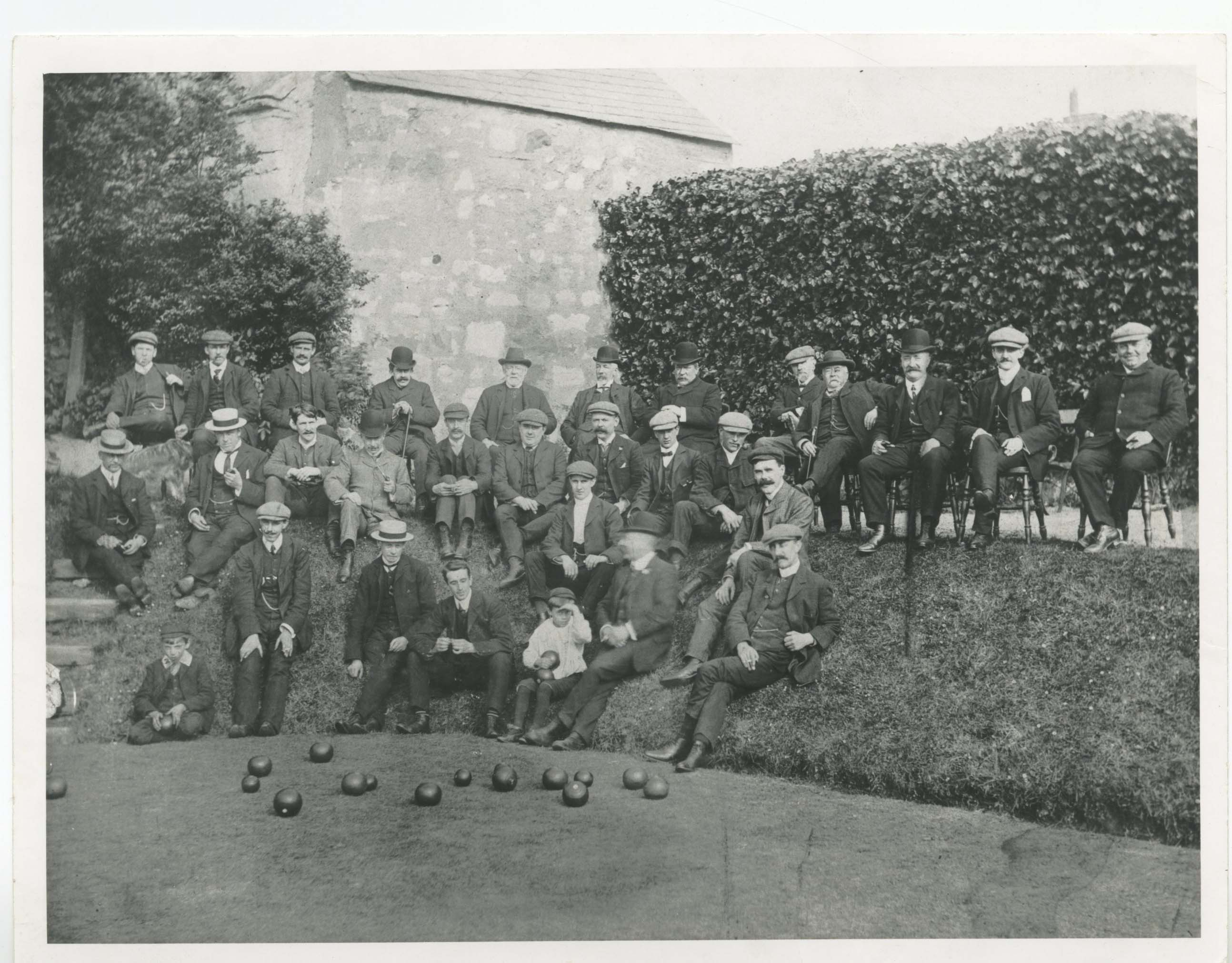 Ruthin Bowling Club Members. c. 1910.